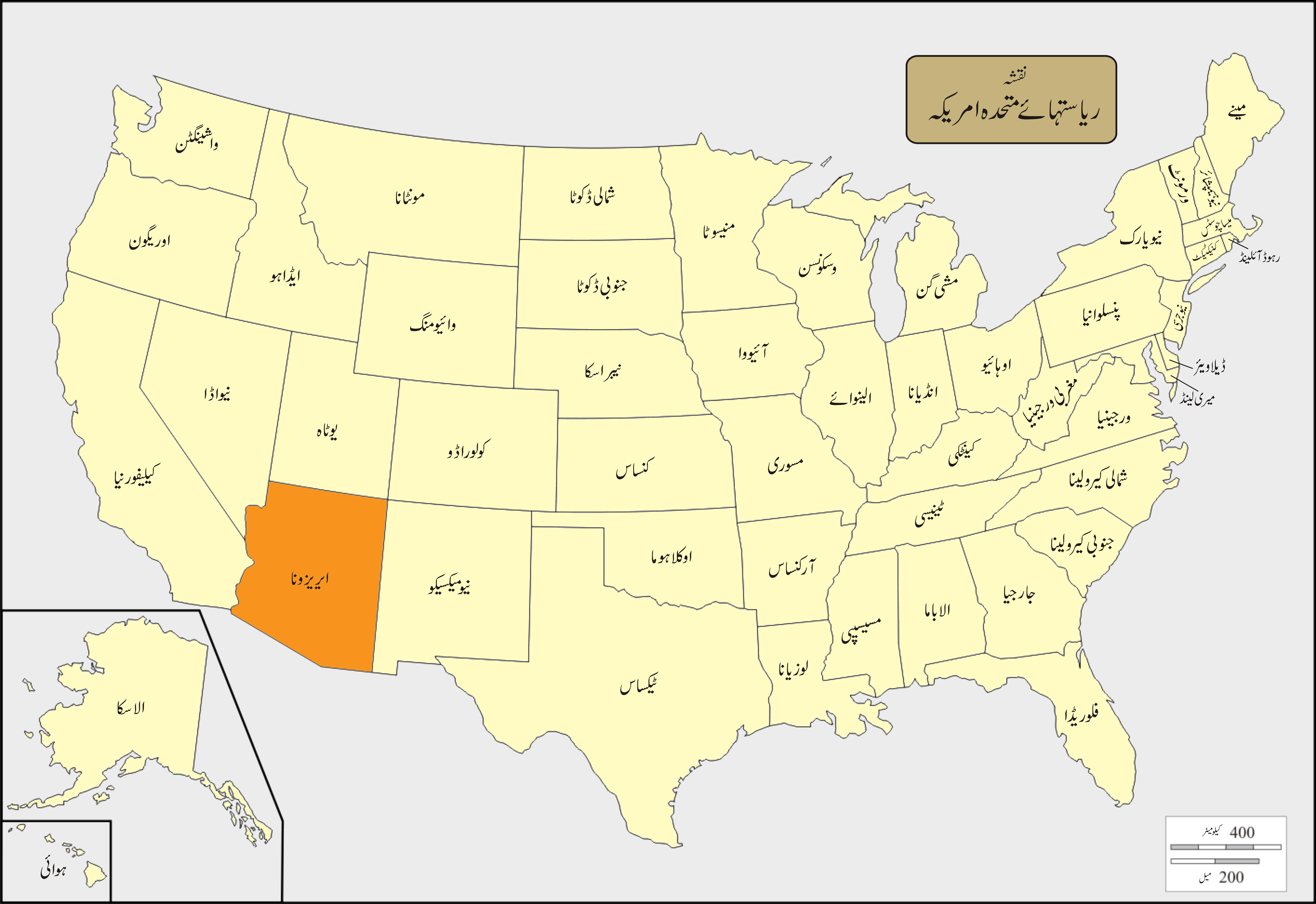 USA Names Arizona